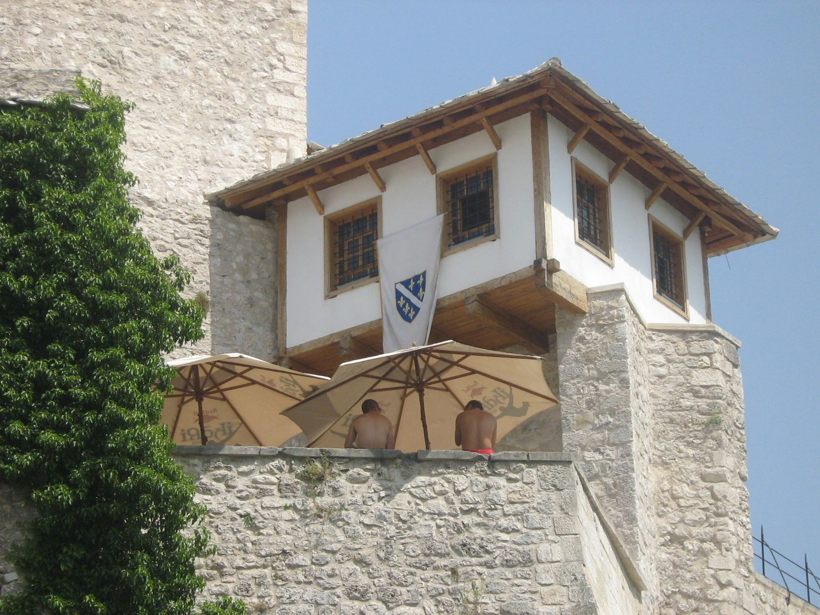 Around Stari most